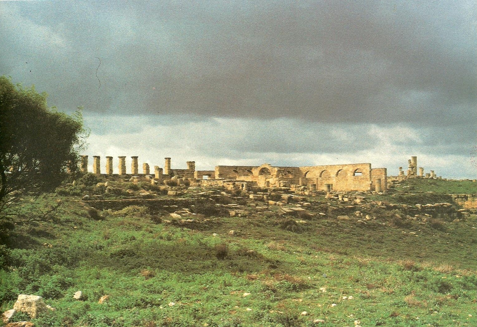 Ruins of Tolmeitha, Libya.